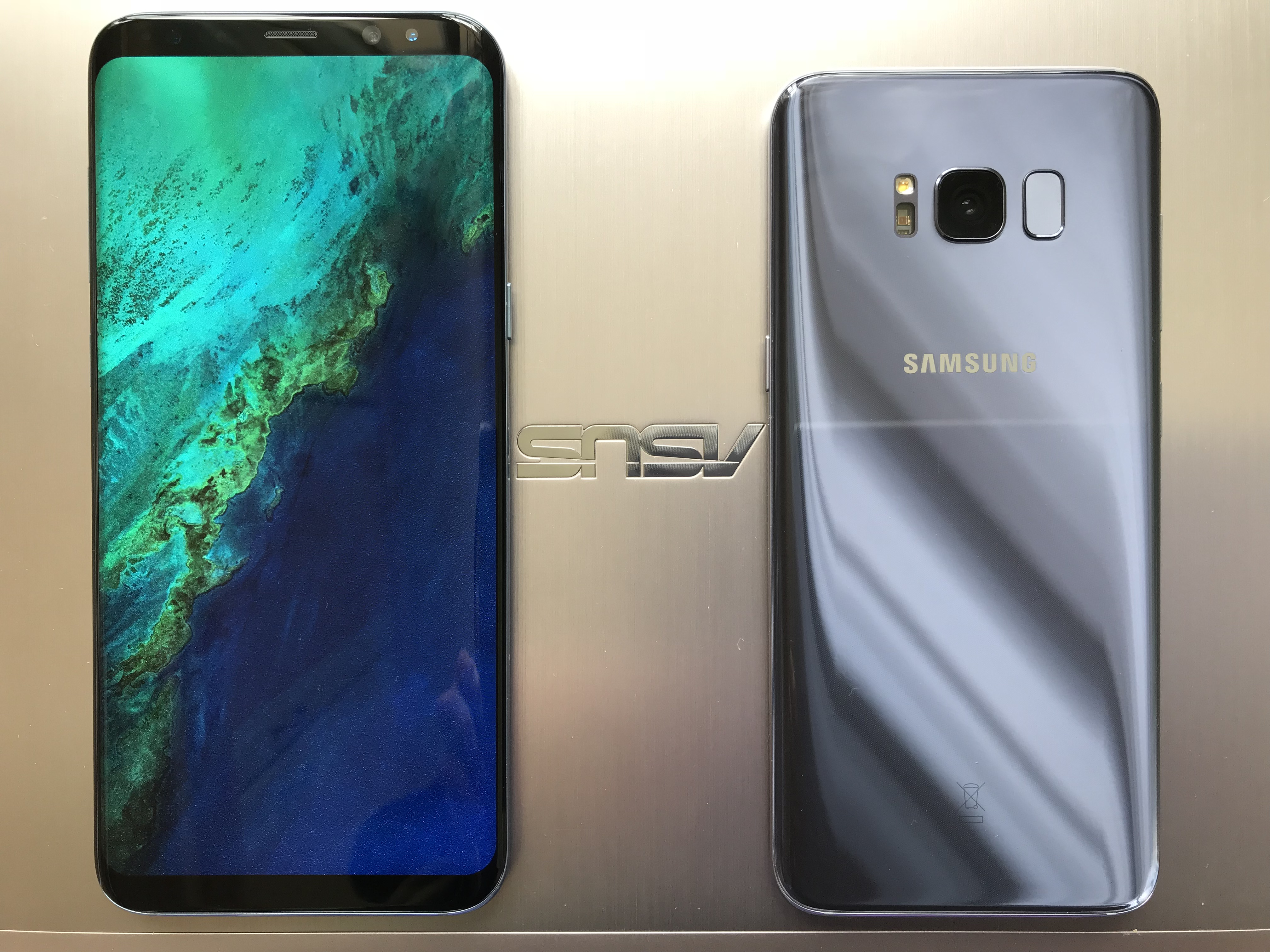 Samsung Galaxy S8 & S8+ smartphones